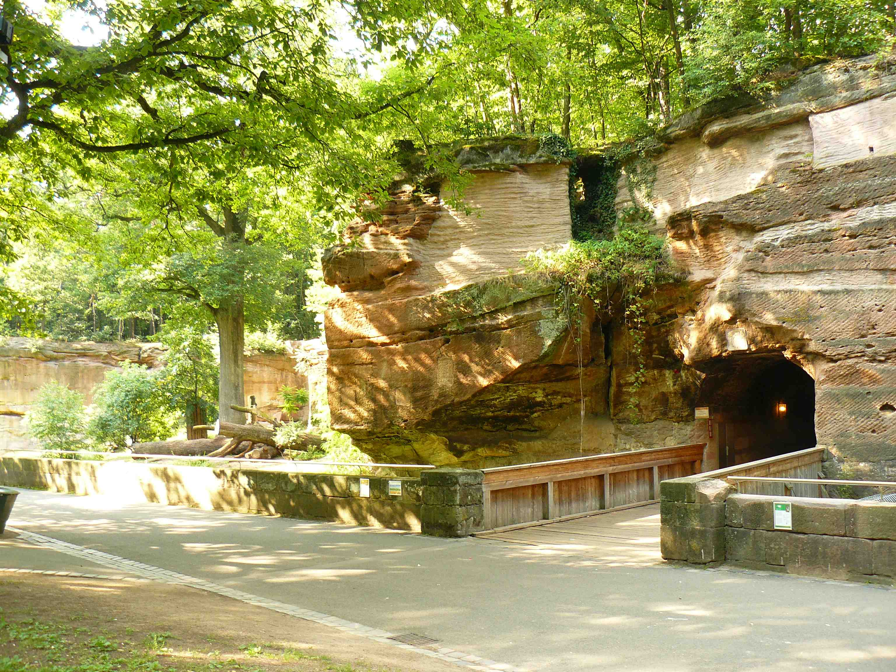 Entrance of the Big cat house in the Tiergarten Nuremberg, Germany